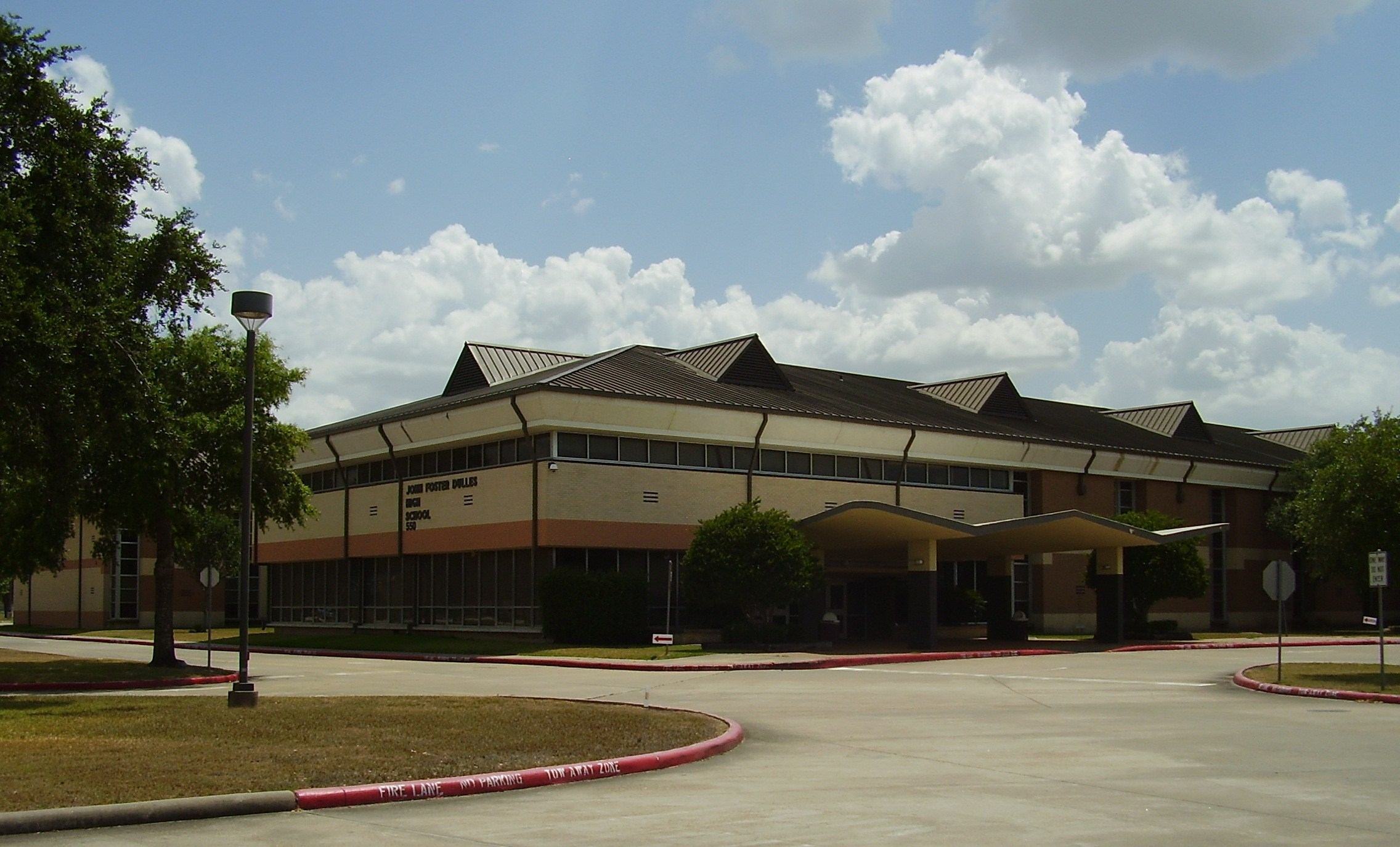 John Foster Dulles High School